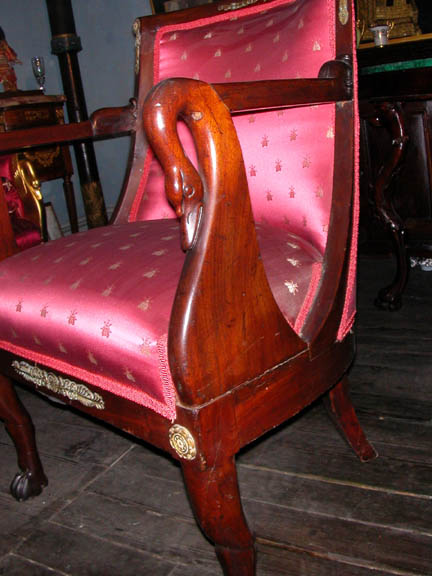 Fauteuil also with a swan motif